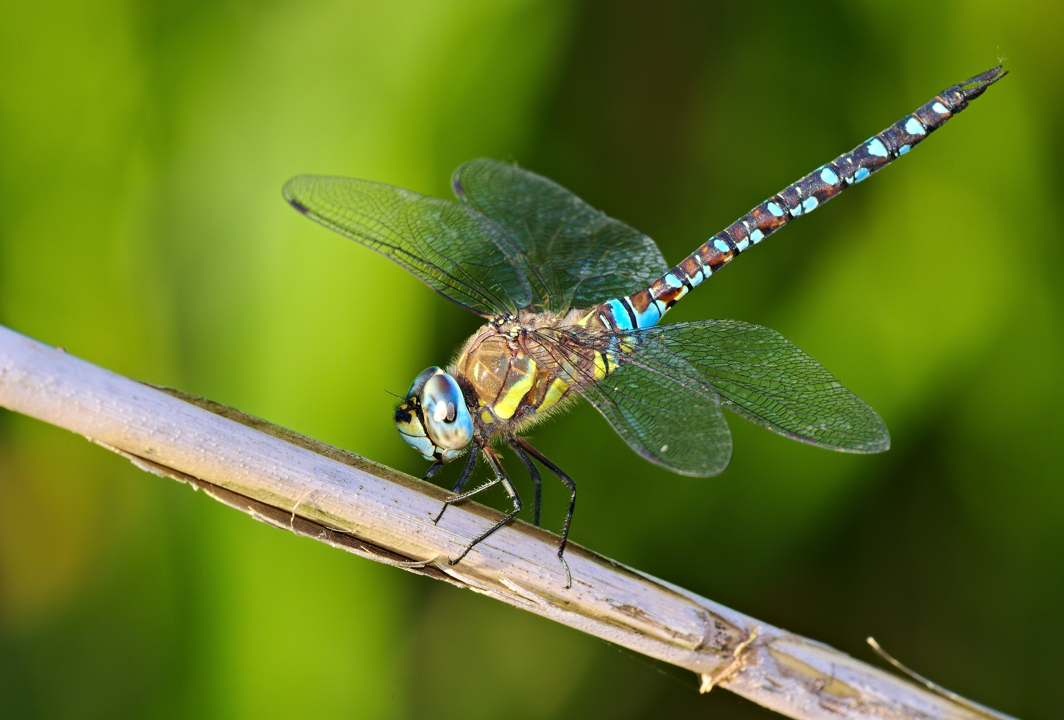 Migrant hawker - Aeshna mixta, male. Taken by the Landgraben in Hüttenfeld, Lampertheim, Hesse, Germany.